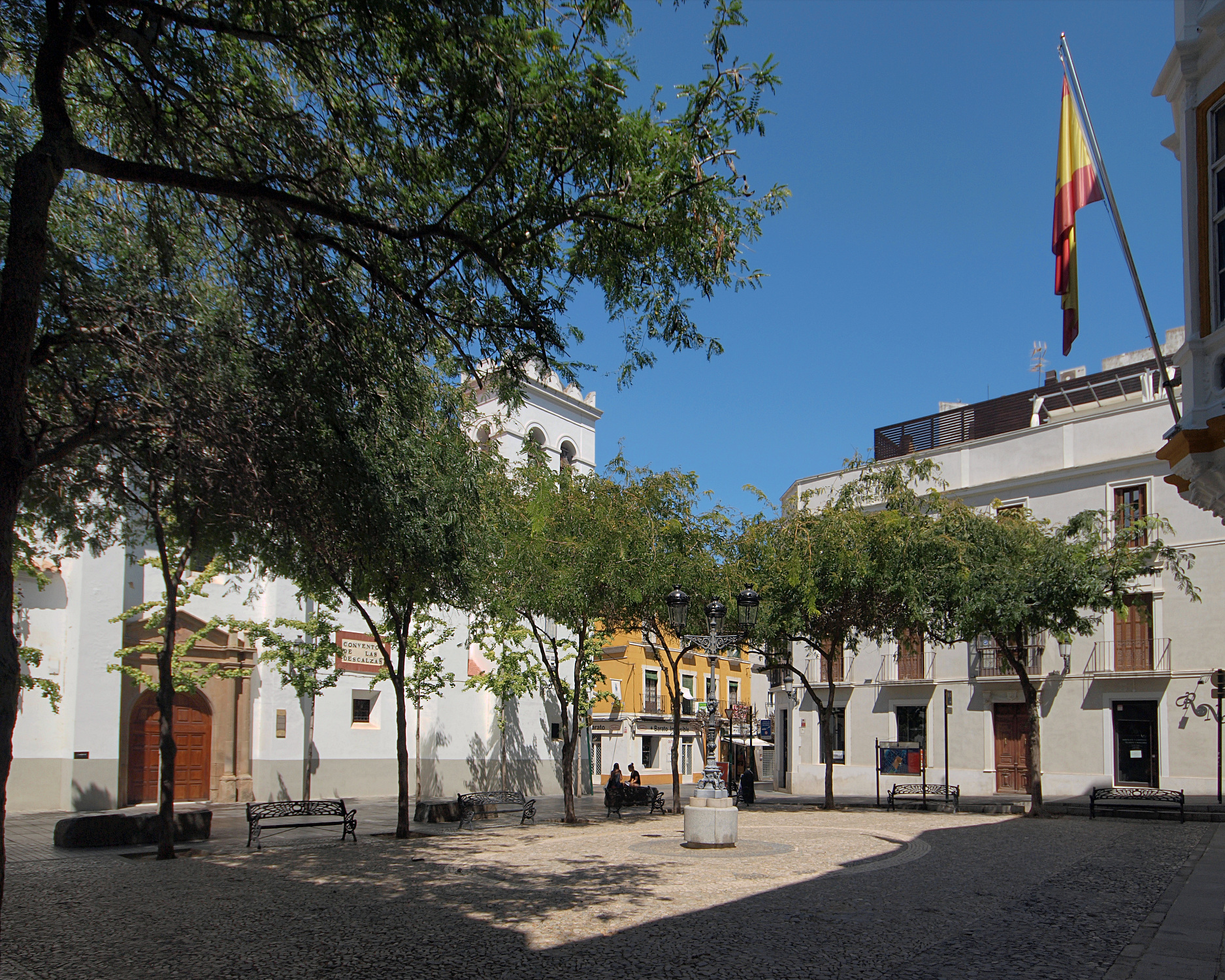 Badajoz, Plaza Lopez Ayala and Convent of Descalzas